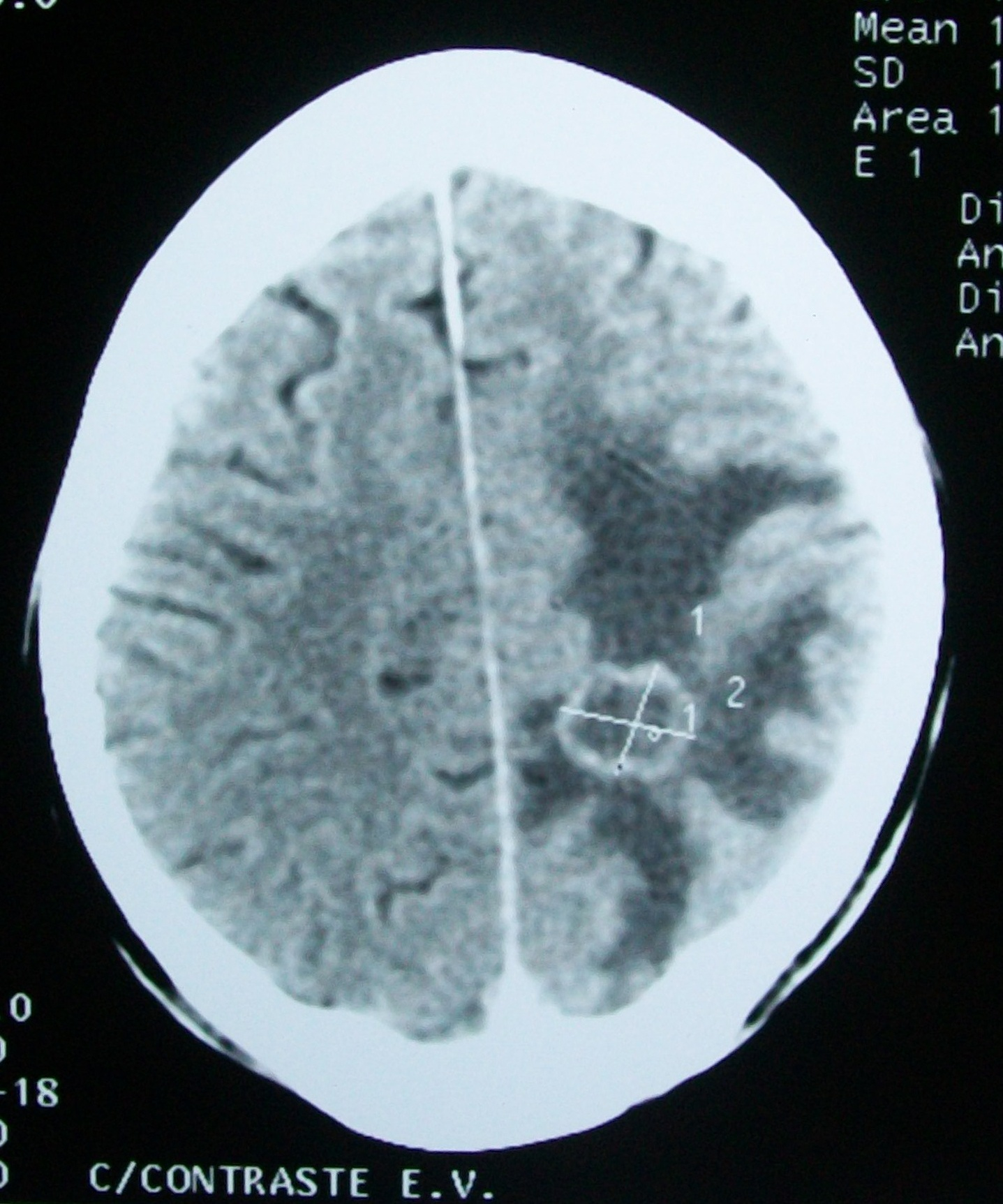 CT scan of a metastasis-suspected space-occupying brain tumor in the left temporo-parietal. There is hypoattenuating (dark) peritumoral edema in the surrounding white matter, with a "finger-like" spread. Same lesion seen by MRI: File:MRI brain tumor.jpg.